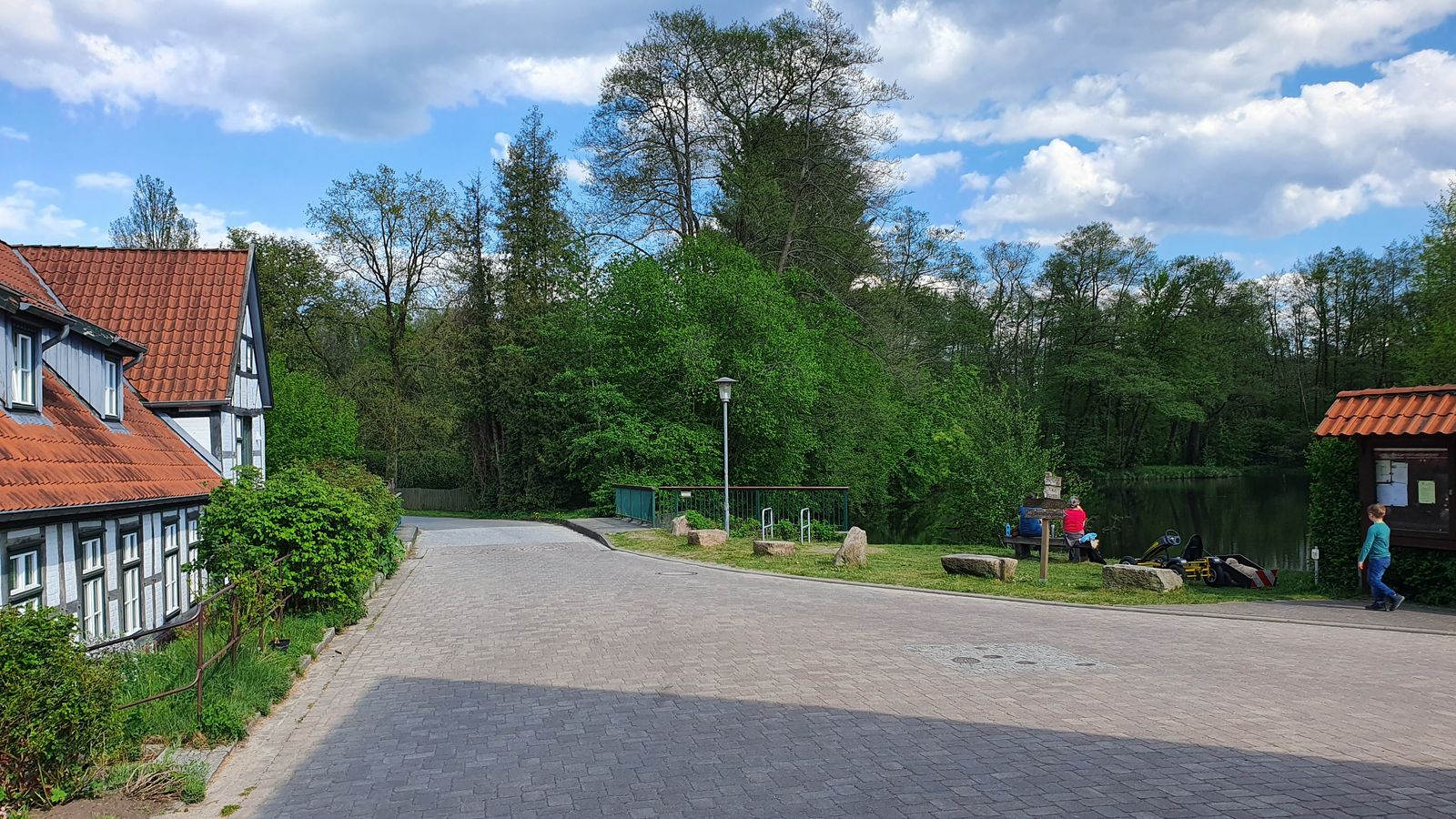 Bötersheim city